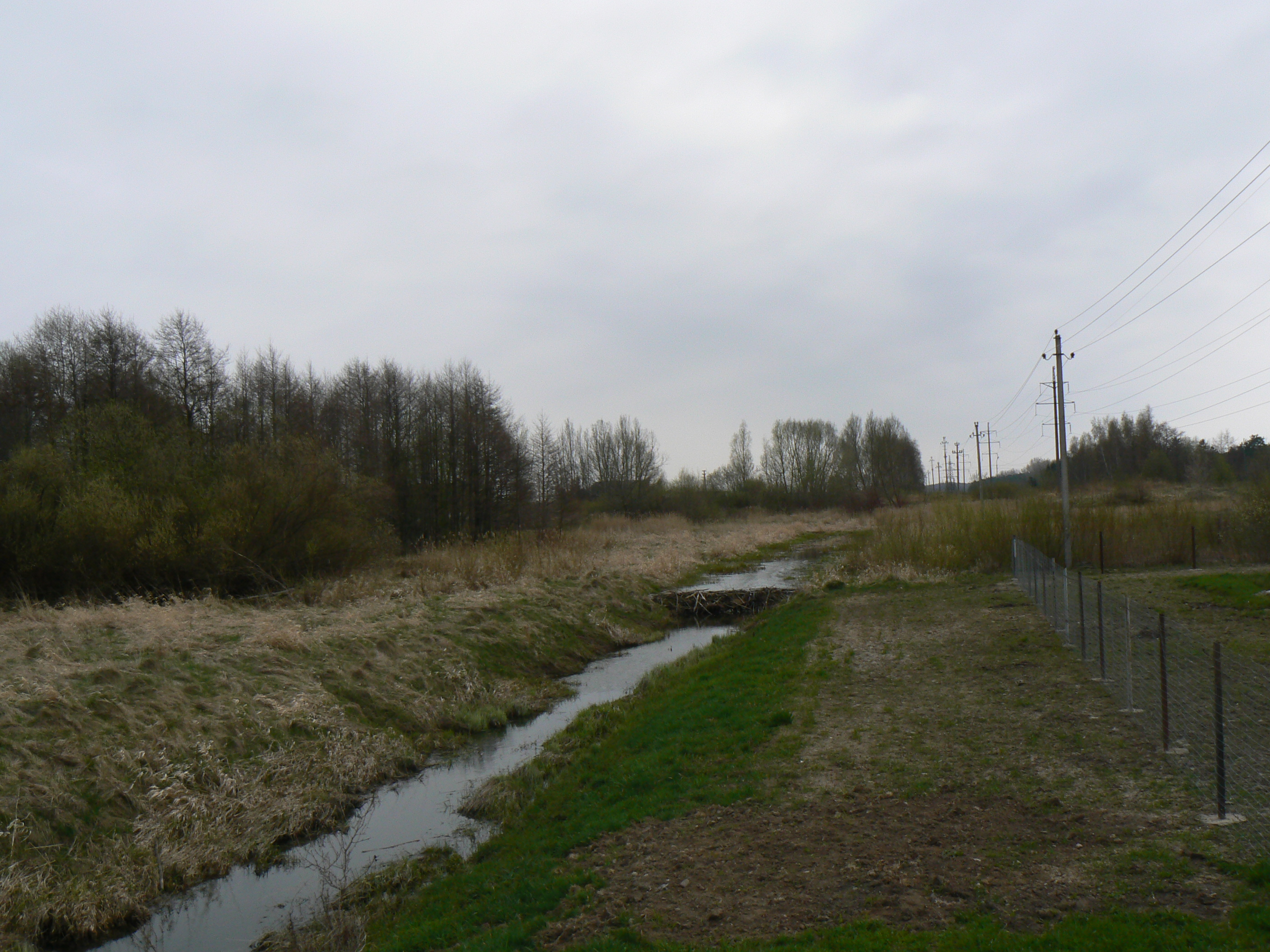 Žiogupis (River in Lithuania, Palanga)